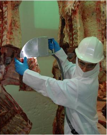 Carcass Grading